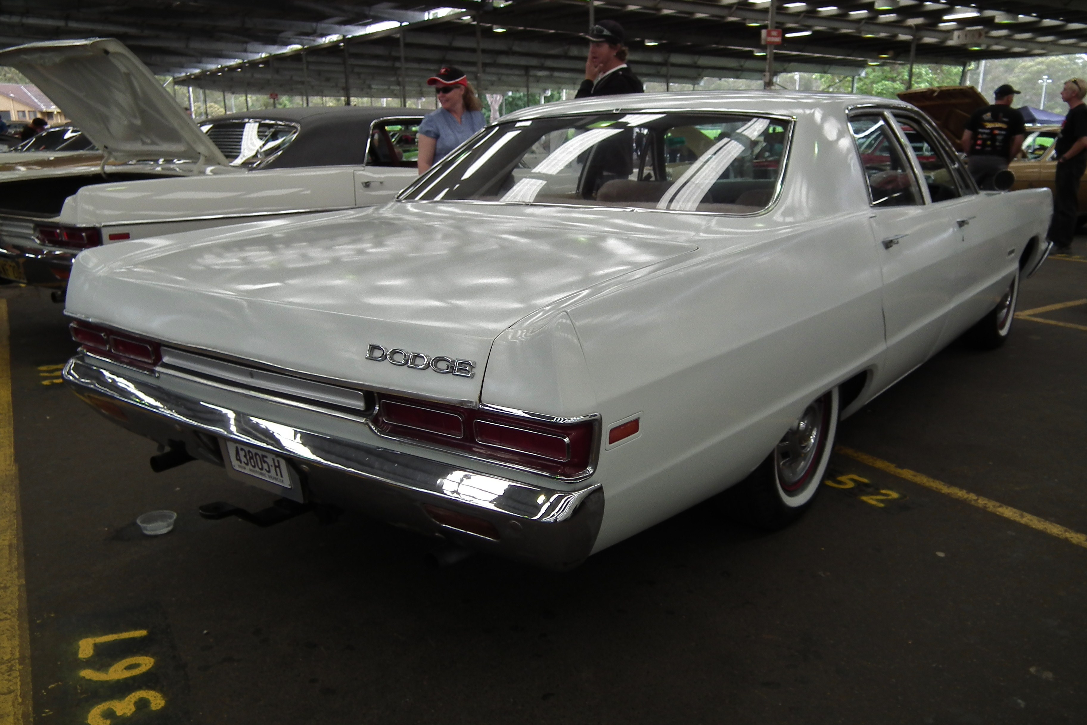 1969 Dodge DE Phoenix 400 sedan. Limited edition number 284 of 400 built. Taken at the 2011 New South Wales All Chrysler Day, held at Fairfield Showground, Prairiewood, Sydney.